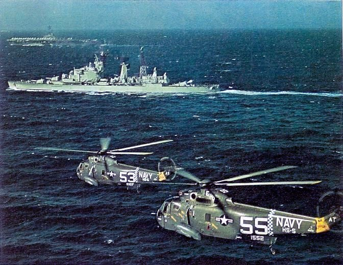 Two U.S. Navy Sikorsky SH-3A Sea King helicopters (BuNo 151552, 152107) from helicopter anti-submarine squadron HS-5 Night Dippers in 1967. HS-5 was assigned to Carrier Anti-Submarine Air Group 54 (CVSG-54) aboard the aircraft carrier USS Essex (CVS-9), visible in the distance. Essex operated in the North Atlantic and the Mediterranean Sea from January to August 1967 and visited Norway, Germany, the Netherlands, Great Britain, Italy, Malta, and Spain. The photo was probably taken off the Netherlands, as the cruiser visible is Hr.Ms. De Zeven Provinciën (C802).